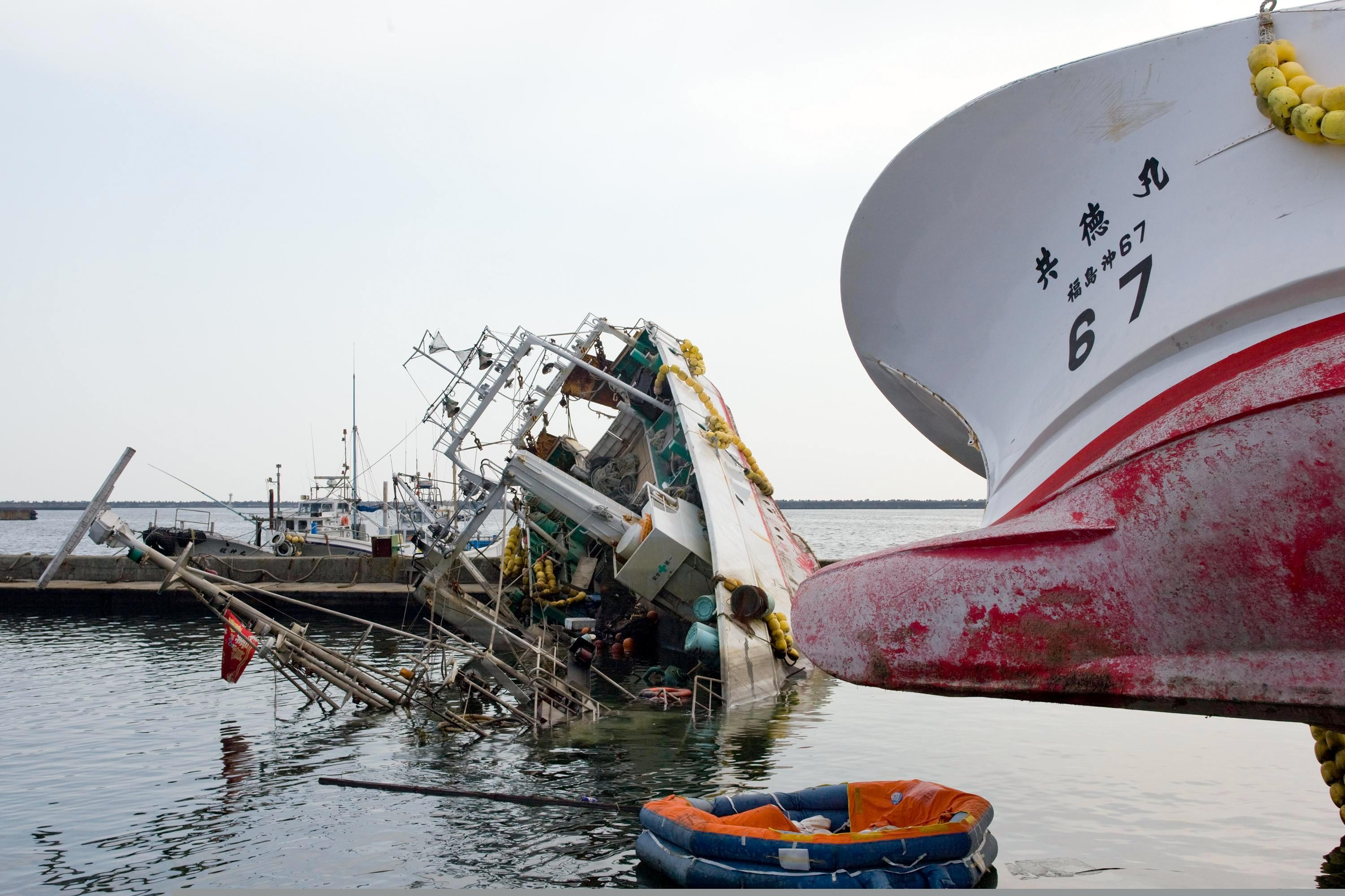 The devastated port city of Onahama (小名浜港) in Fukushima prefecture, Japan, can be seen March 29, 2011, in the aftermath of the March 11 earthquake and tsunami. U.S. Forces Japan's response was part of a broader U.S. government effort to support Japan's request for humanitarian assistance. This effort included coordination by the U.S. Department of State and U.S. Agency for International Development, in constant consultation with Japanese authorities and U.S. Pacific Command. (U.S. Air Force photo by Yasuo Osakabe/Released) (original text)